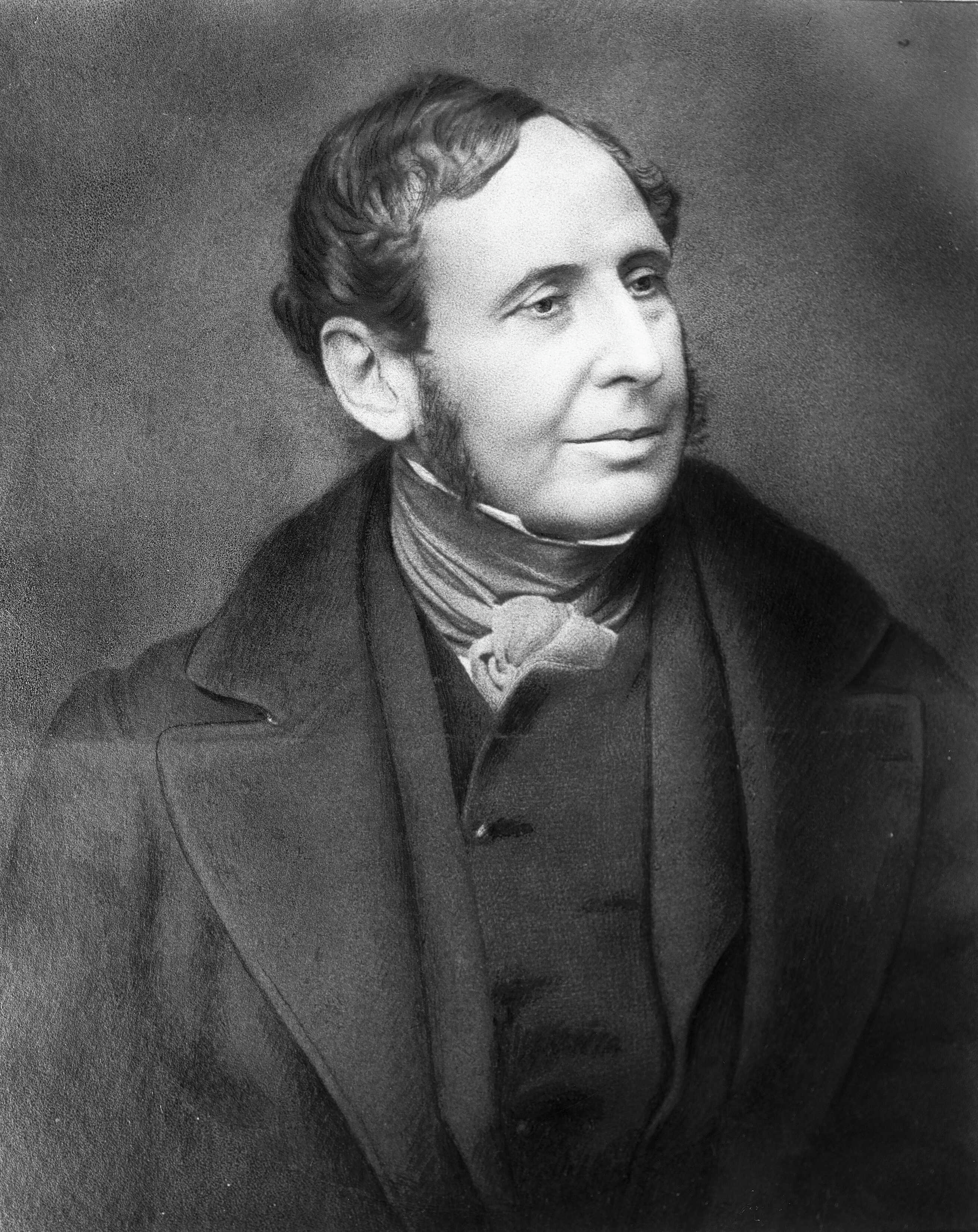 Photographic copy of a portrait lithograph made by Herman John Schmidt (1872-1959), from Auckland, of Vice-Admiral Robert Fitzroy (1805-1865), Governor of New Zealand 1843-1845